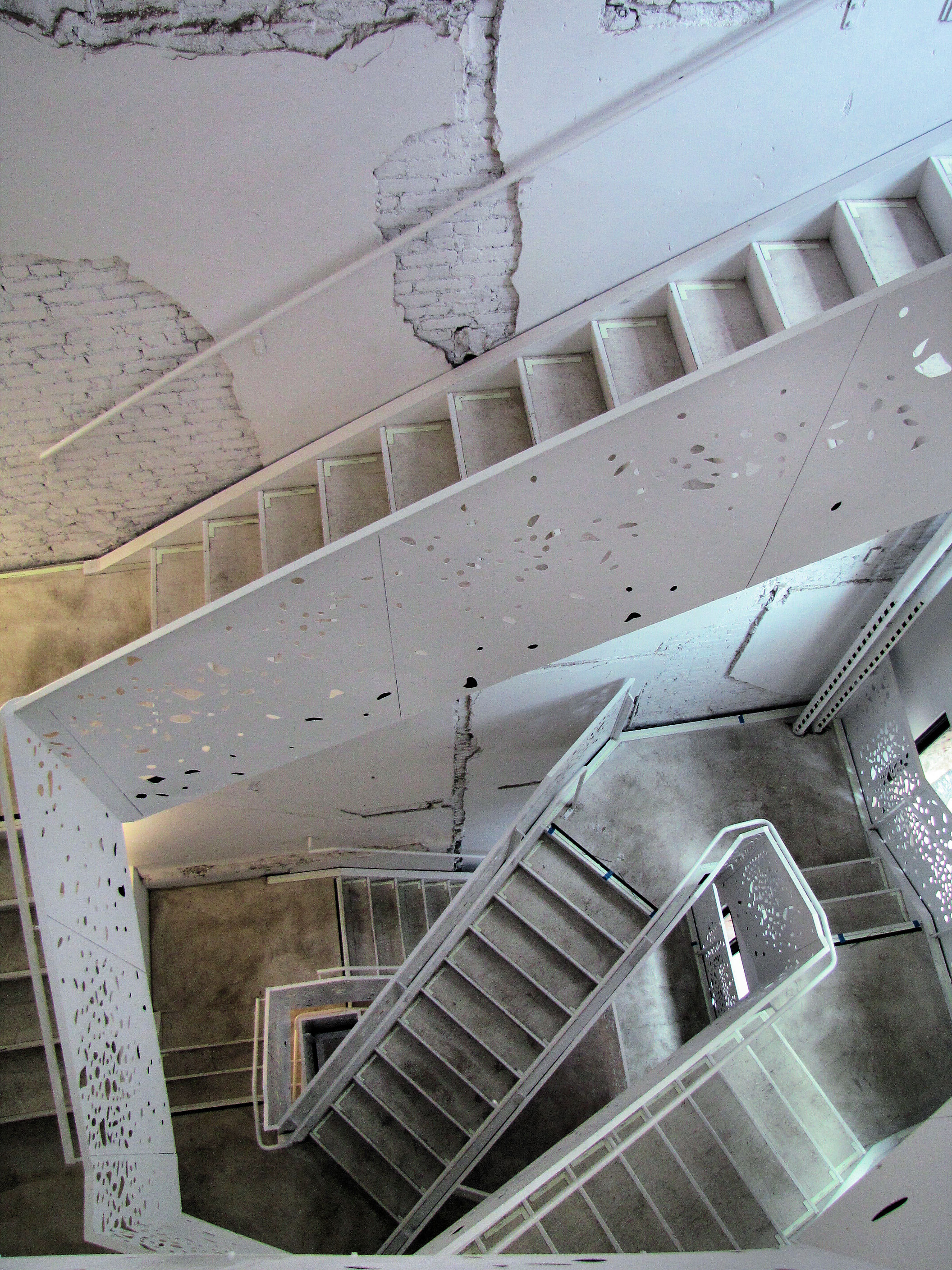 New York University, Department of Philosophy Faculty, new stair by Steven Holl Architects. 2004-2007